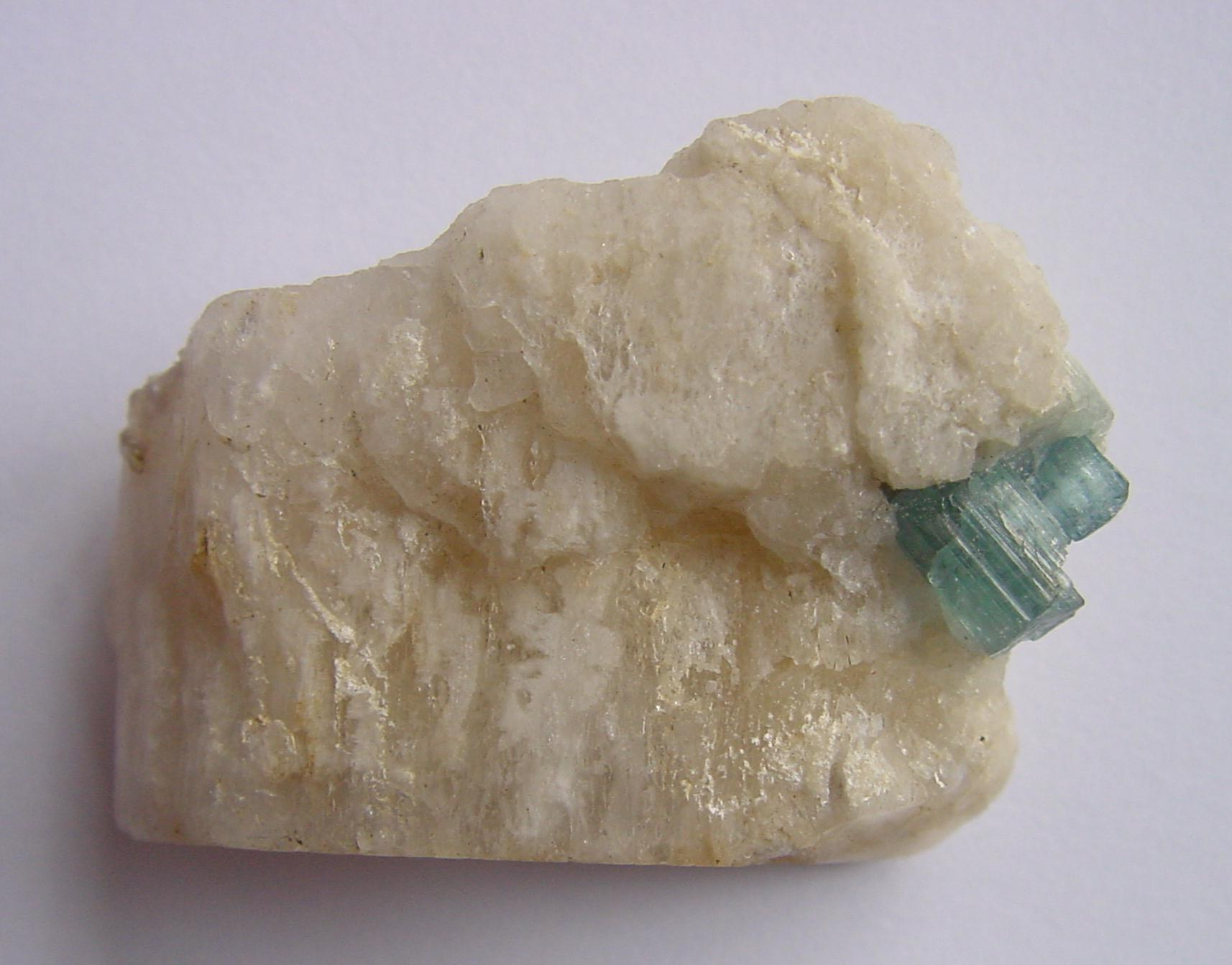 Beryllonite (whitish) with tourmaline variety indicolite (blue). Locality: Paprok, Nuristan Province, Afghanistan (Nuristan Province was formed in 2001 from parts of Laghman and Kunar Provinces). Specimen size 4 cm.